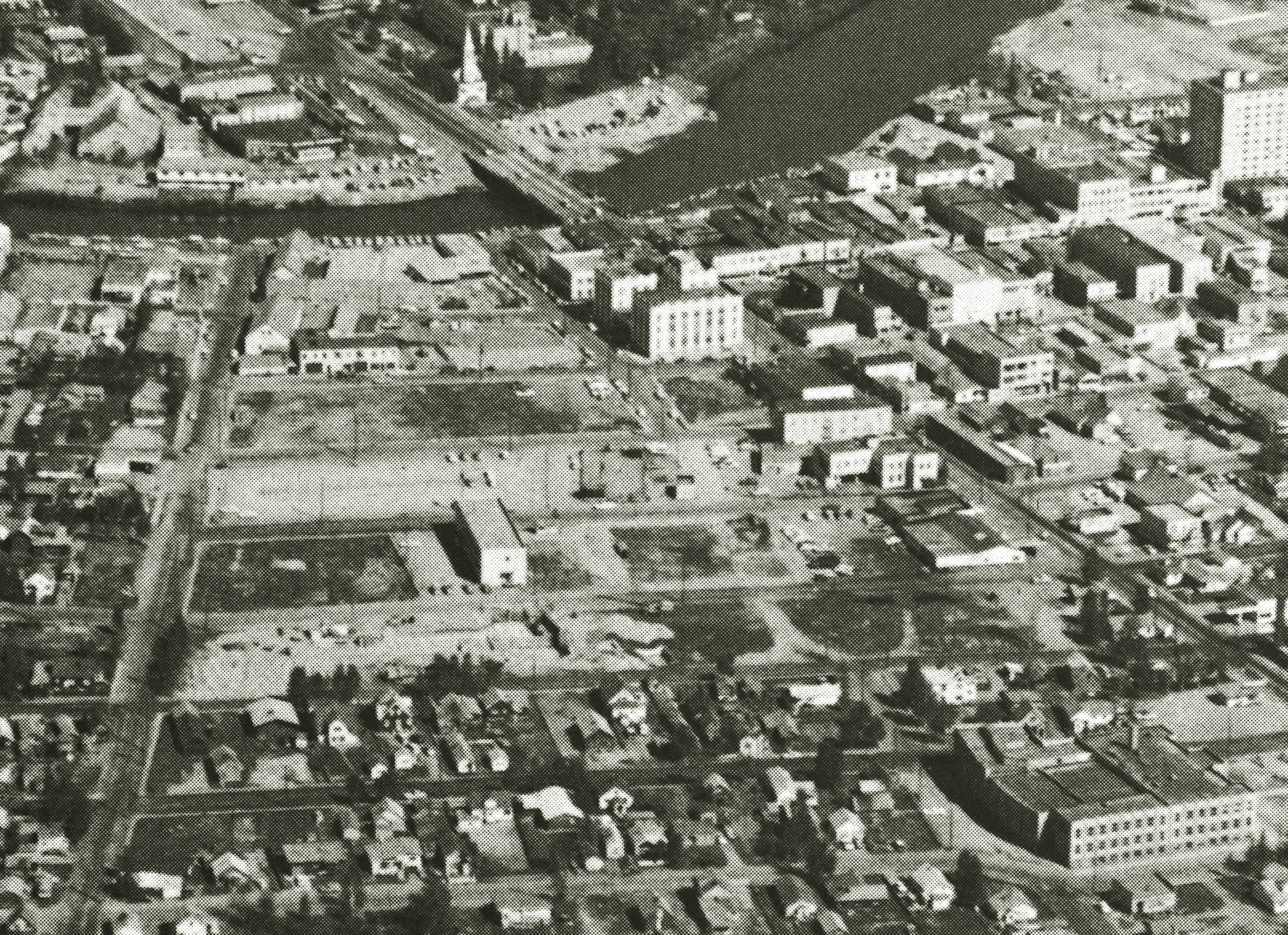 A portion of downtown Fairbanks, Alaska in 1960 or 1961. The first urban renewal zone in Alaska had been planned, stretching from Third to Seventh avenues in the block between Barnette and Cushman streets, and in limited places stretching slightly beyond those streets. A number of houses and small commercial buildings were demolished and replaced with larger commercial buildings and parking lots.